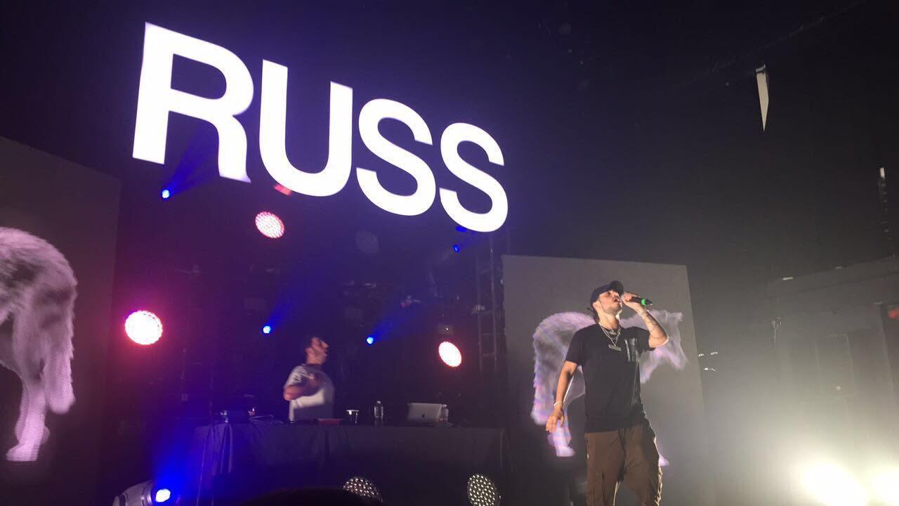 Russ performing at Terminal 5 in New York City on May 31, 2017.